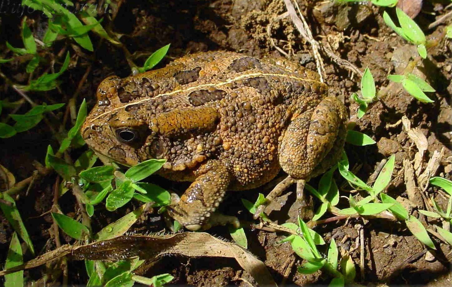 South African toad (Bufo gutturalis) in a garden of St Paul, Reunion Island